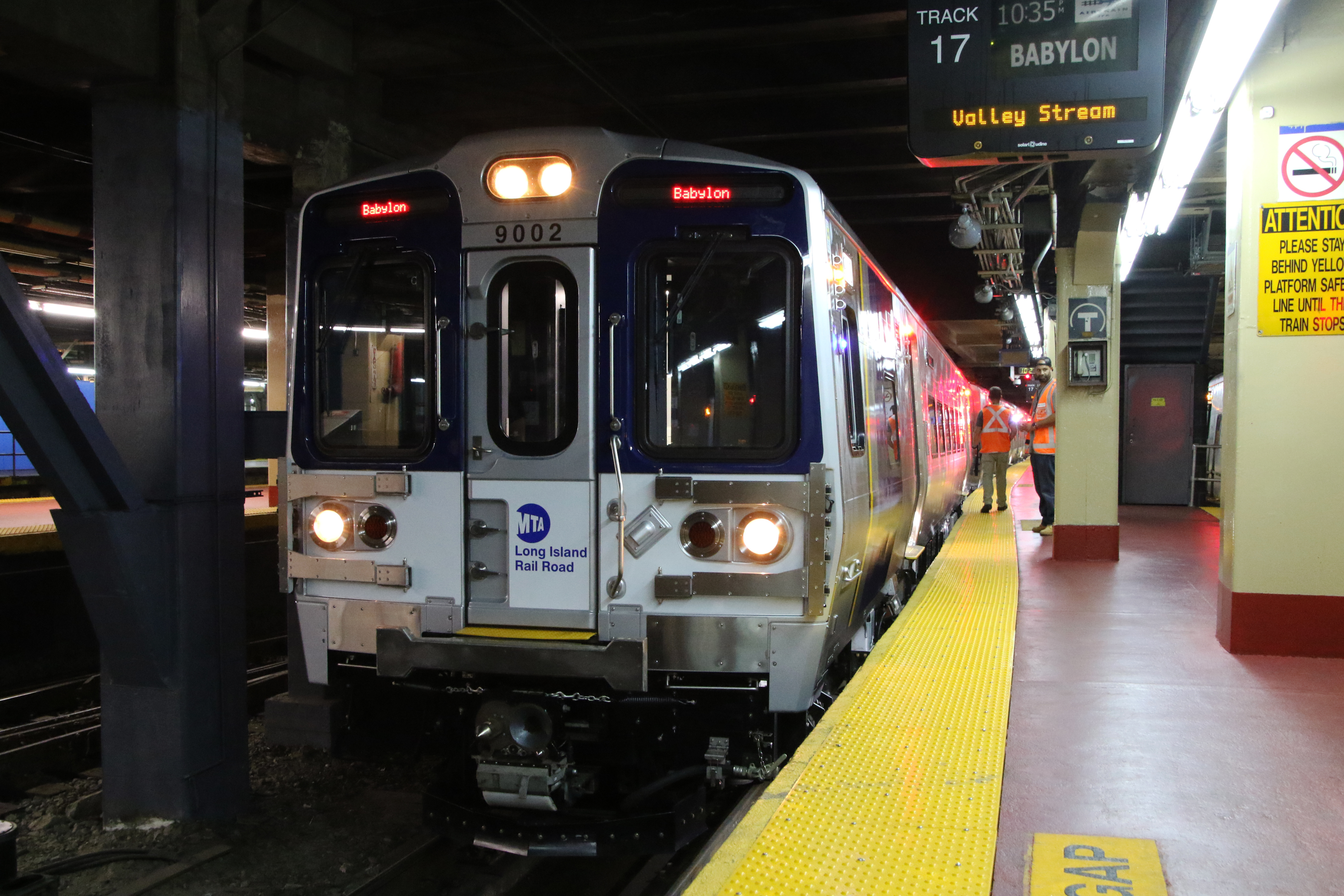 MTA LIRR Babylon Branch train of Kawasaki Heavy Industries M9 cars at Penn Station.